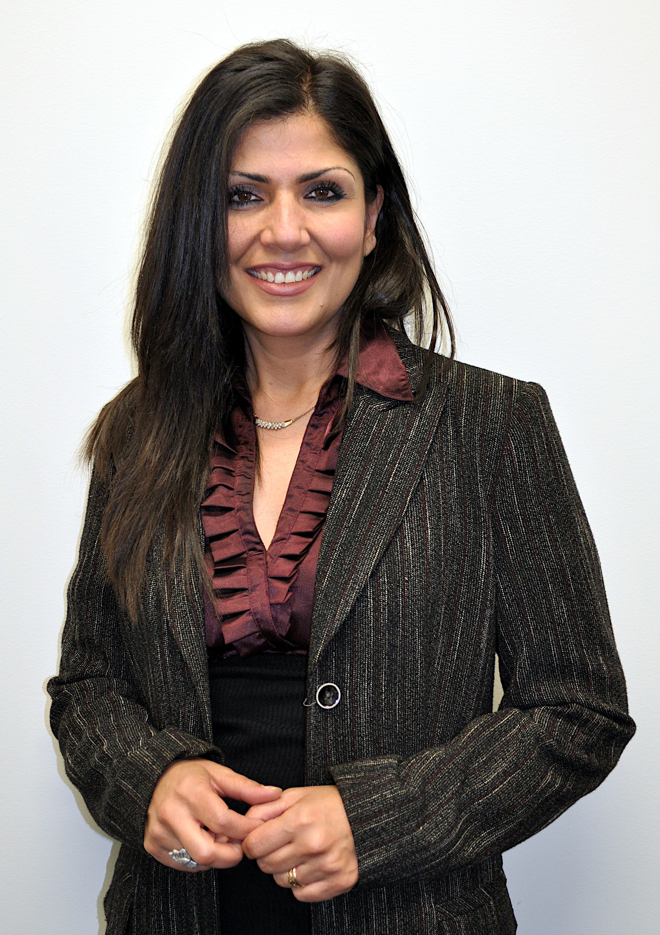 Palestinian rights activist Samah Sabawi.